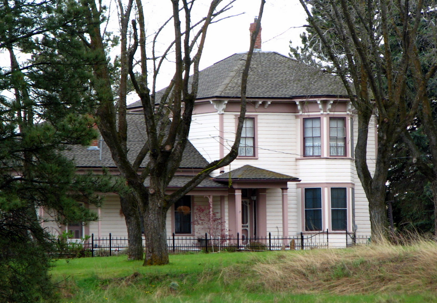 The historic John and Helen Moore House (built 1882), located 66432 Highway 97 near Moro, Oregon, United States, is listed on the US National Register of Historic Places.